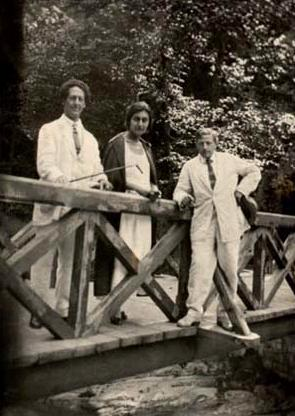 Alexandre Tstsunava, Ketevan Magalashvili, Dimitri Shevardnadze. 1930